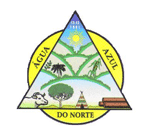 Coat of arm of the city of Abel Figueiredo, Pará, Brazil.